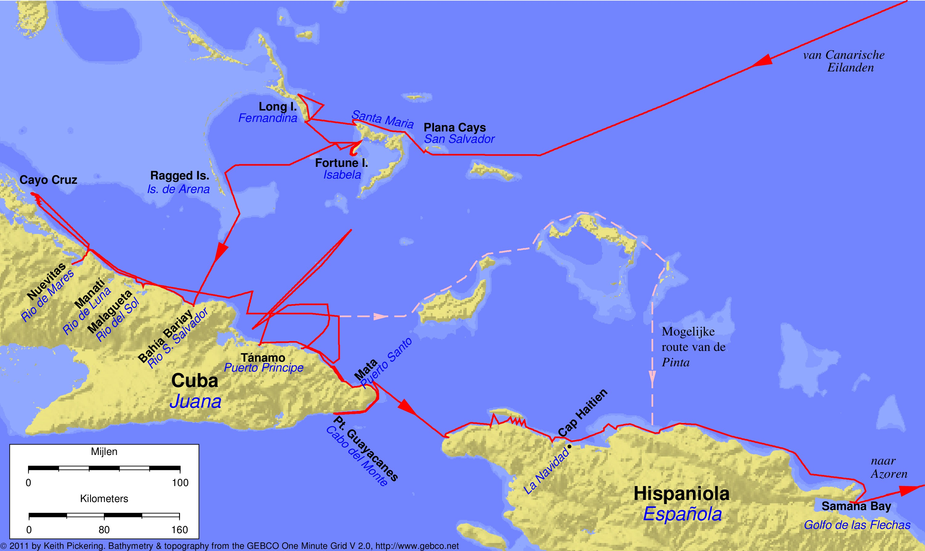 Map of the first voyage of Christopher Columbus